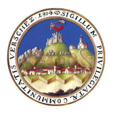 Coat of arms of Vrsac/Vršac